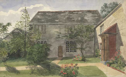 Acland Barton, Landkey, Devon, watercolour by Edward Ashworth, 1851. Collection of Devon County Council